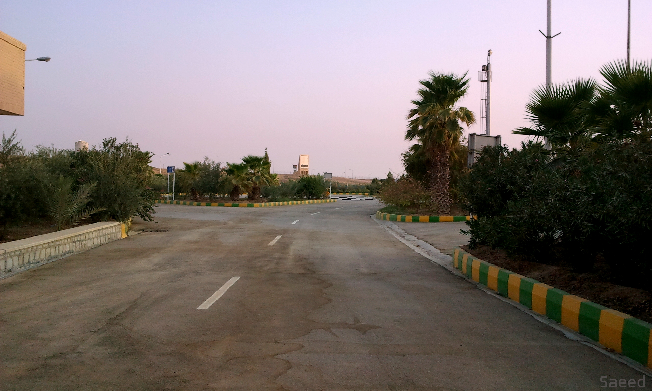 Border crossing point, Iran Iraq Border.